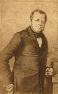 Camillo Benso, conte di Cavour (1810-1861), first Prime Minister ever of the Kingdom of Italy.